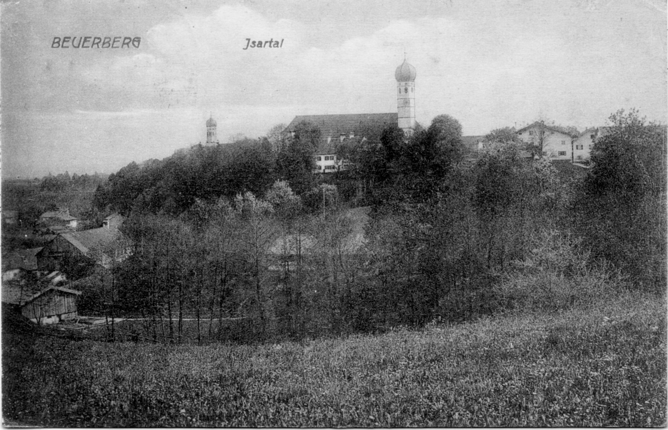 The village of Beuerberg